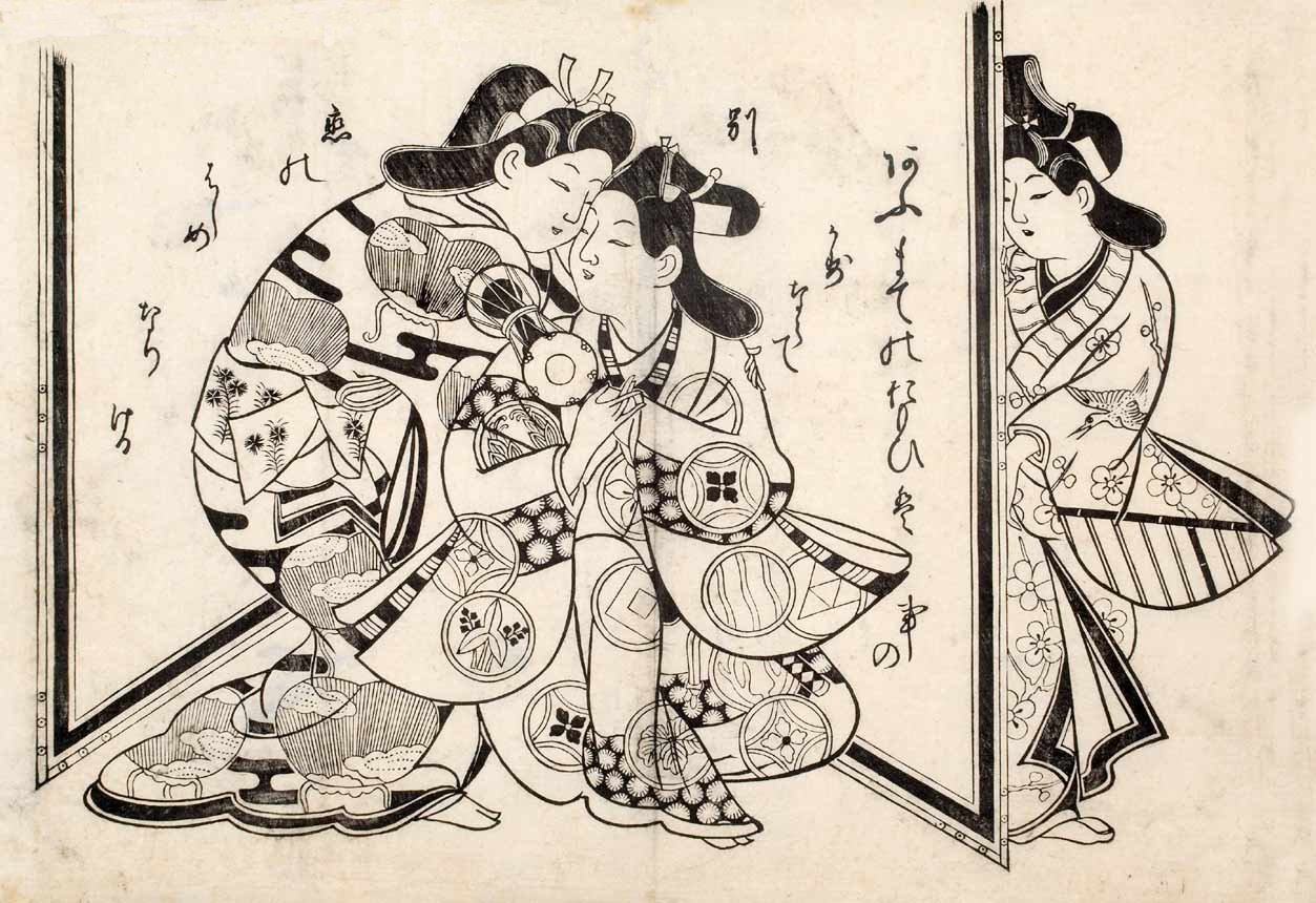 Lovers behind a Screen by Sugimura Jihei, c. 1684, Honolulu Museum of Art